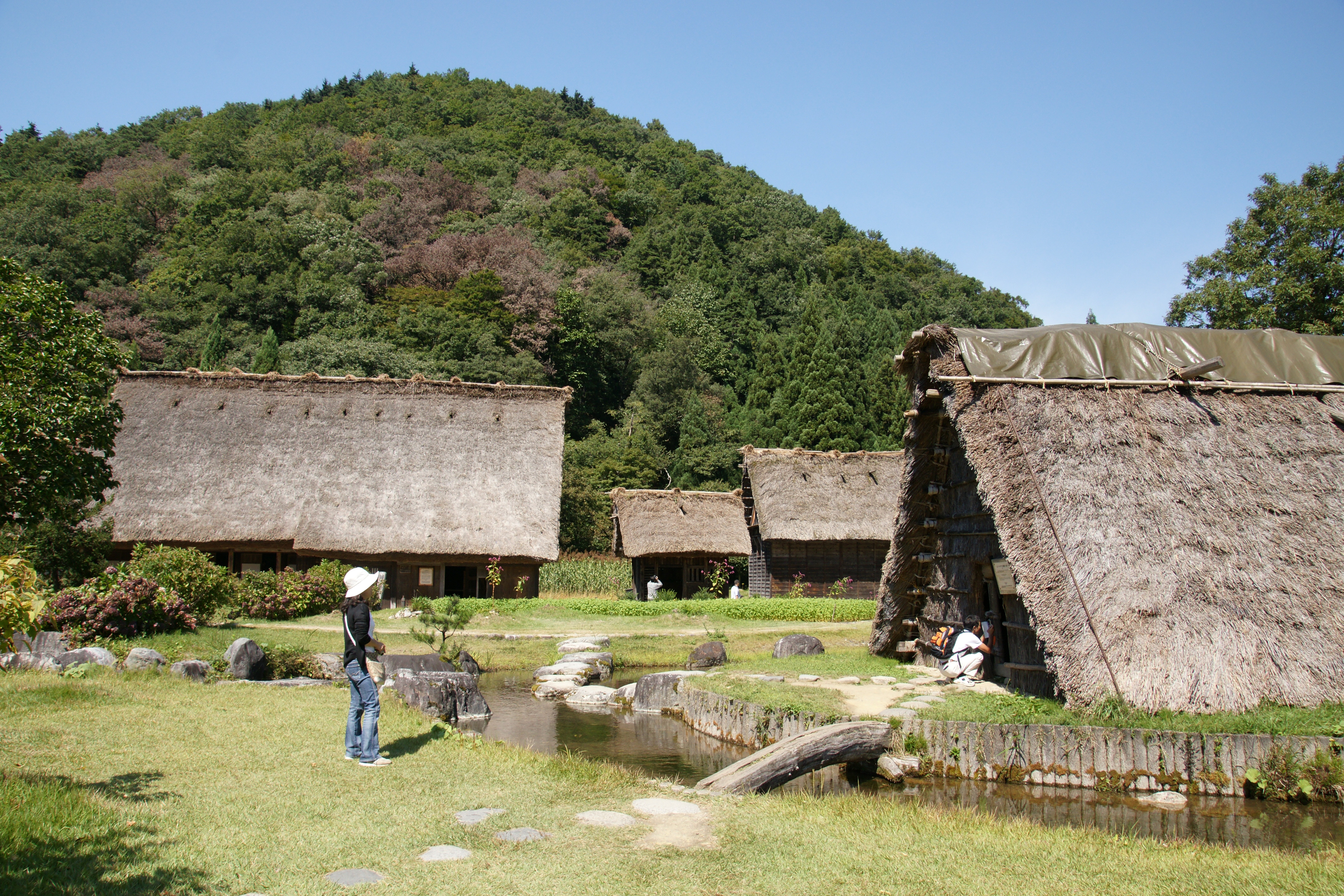 Gasshodukuri-minkaen in Shirakawa-go (Ogi), Shirakawa, Gifu prefecture, Japan